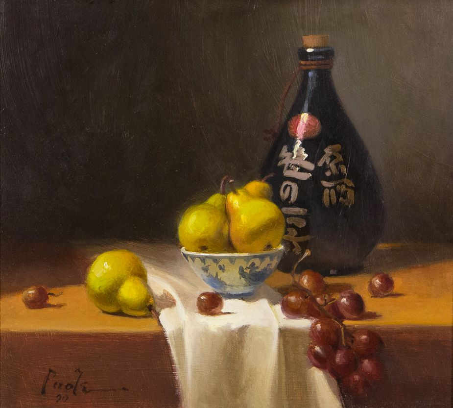 Original work by O. Gail Poole, 14" x 15", Oil on Board